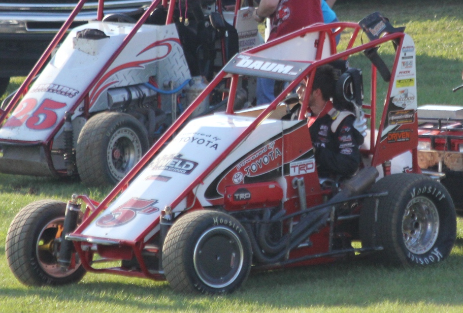 2014 POWRi national midget champion Zack Daum in his midget car watching qualifying at Angell Park Speedway.